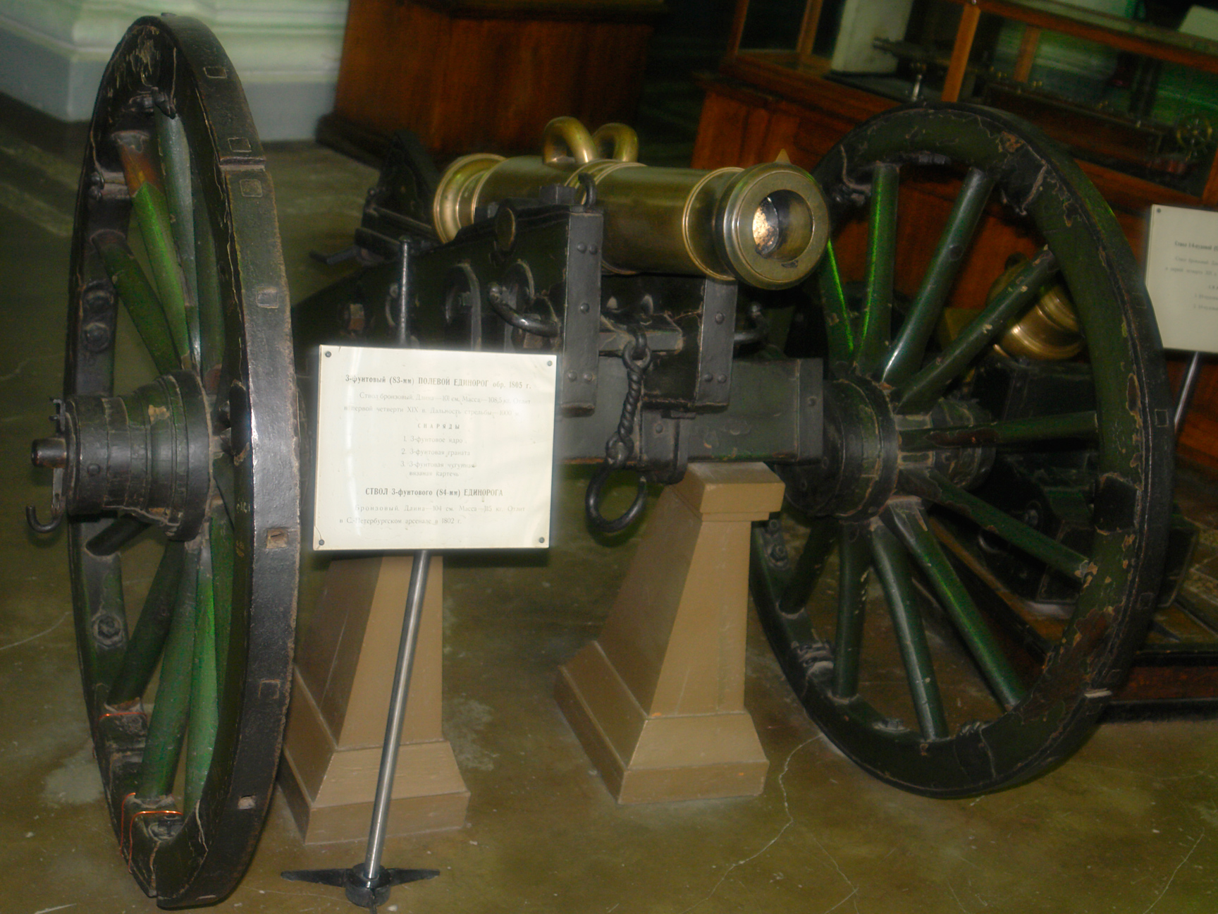 moonspeek: 3-pound (83-mm) field unicorn, 1805. Bronze, 101 cm. Mass: 108.5 kg. Casted in the first quarter of 19th century. Range: 1000 meters. Artillery museum (Saint Petersburg).